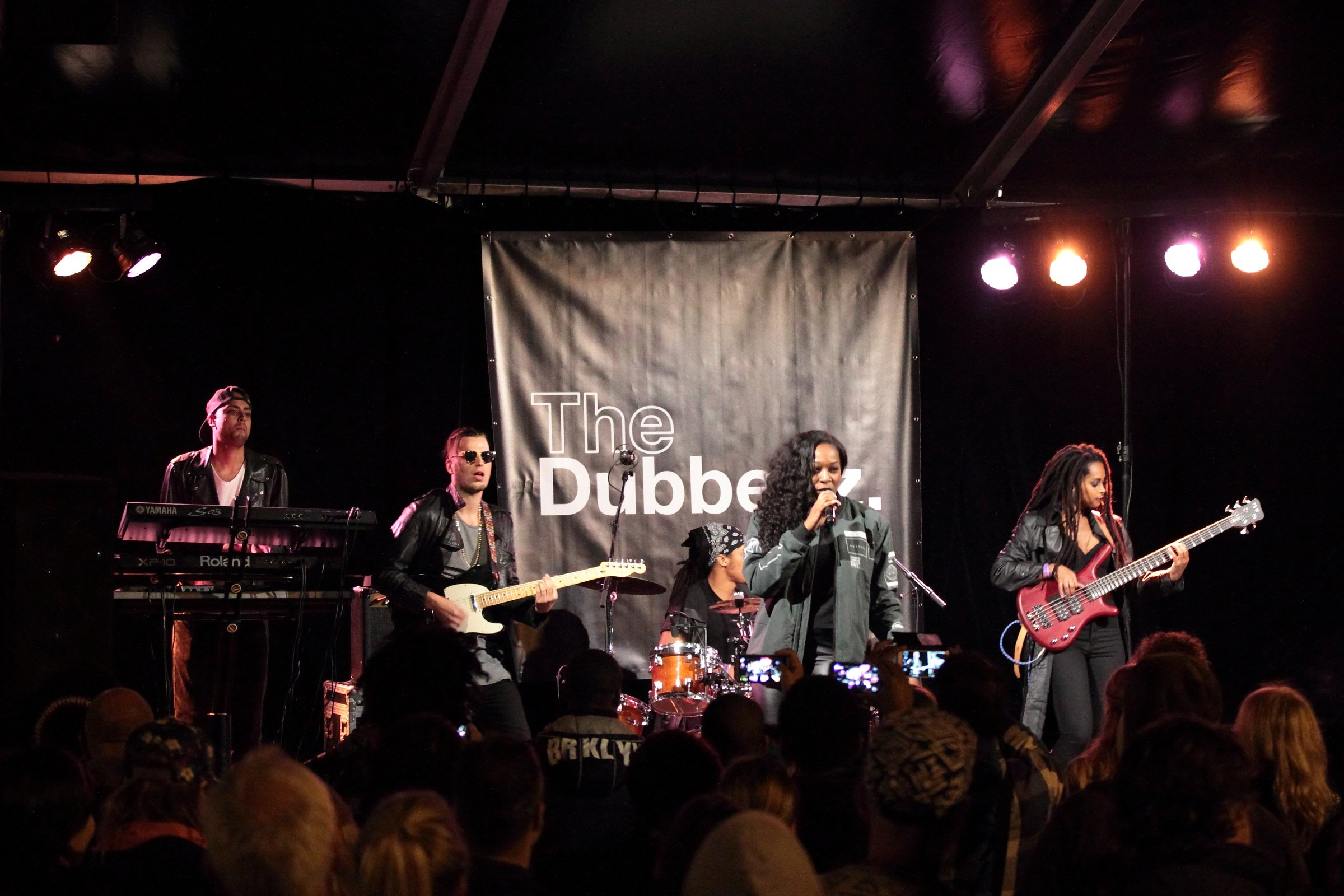 The Dubbeez I